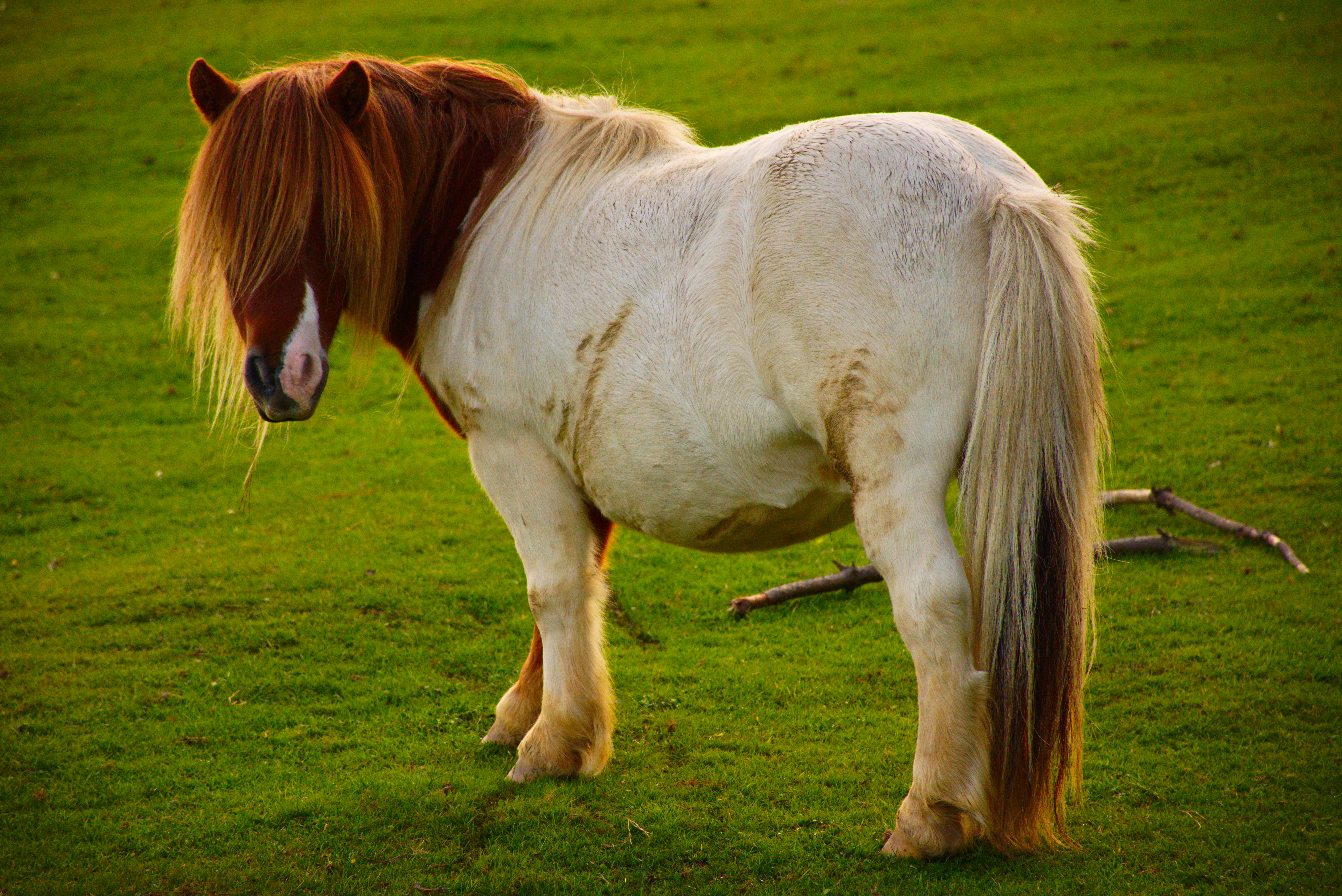 Pottoka